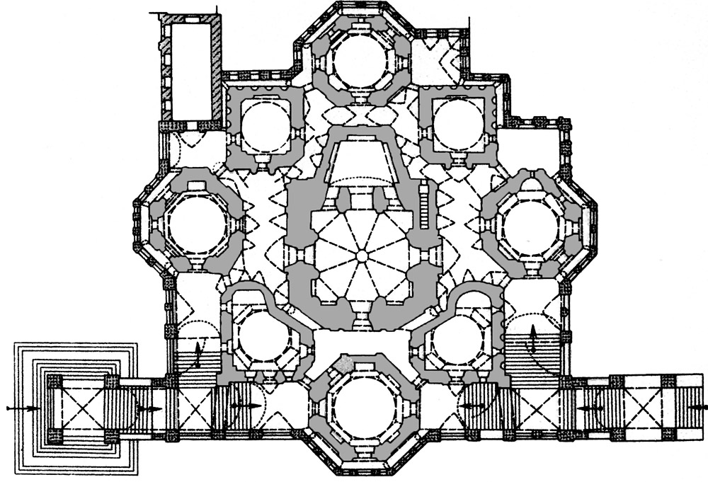 Floorplan of Saint Basil's Cathedral, east at the top, west at the bottom. As reconstructed in 1930s by Nikolai Brunov